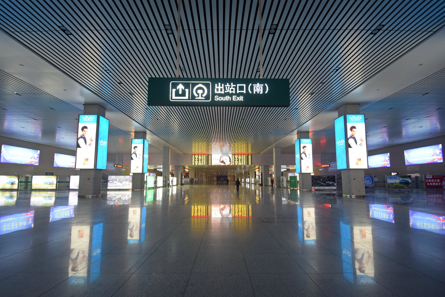 Arrival Concourse of Changchun Xi (West) Railway Station